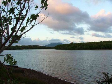 I took this photo myself in 2004